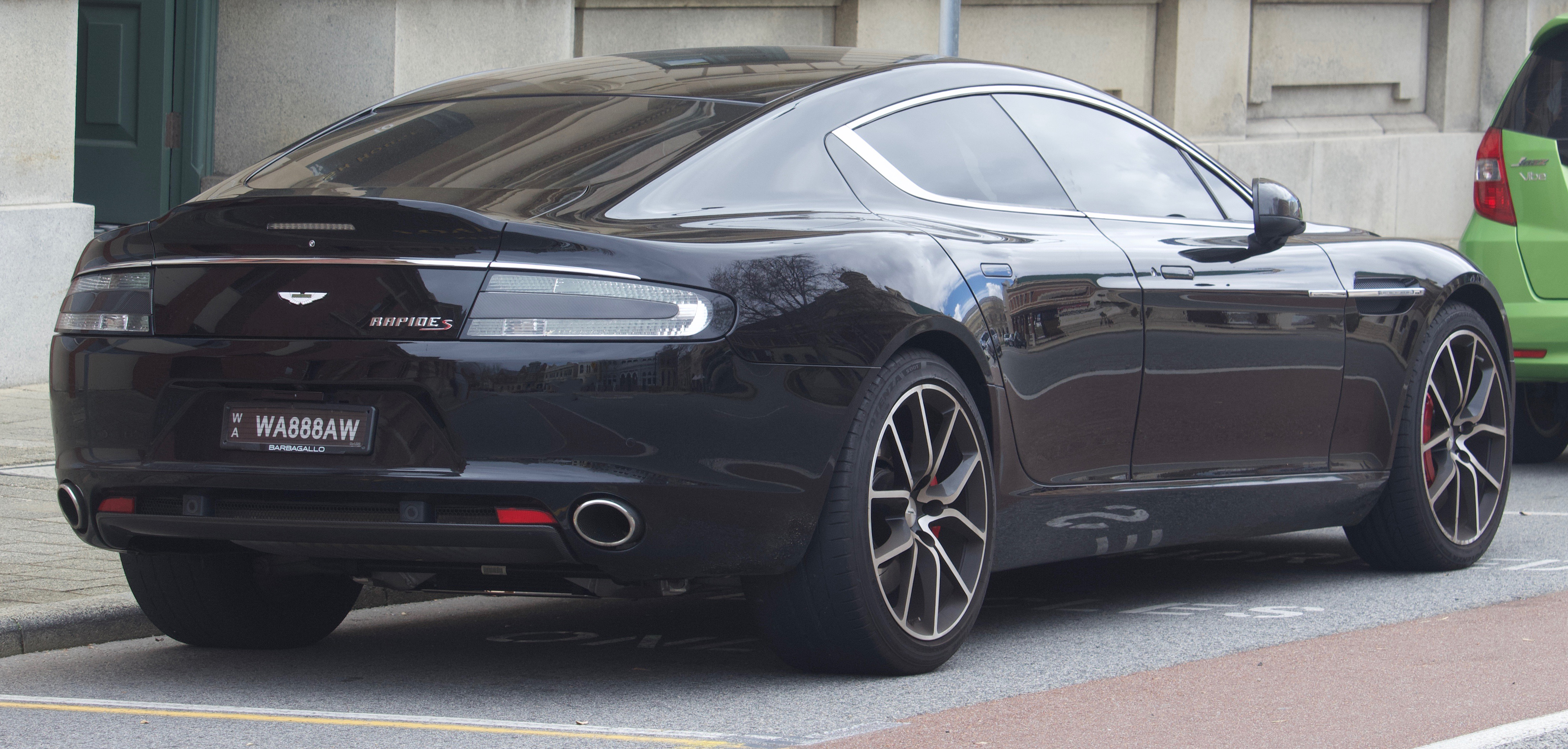 2014-2018 Aston Martin Rapide S sedan. Photographed in Fremantle, Western Australia, Australia.